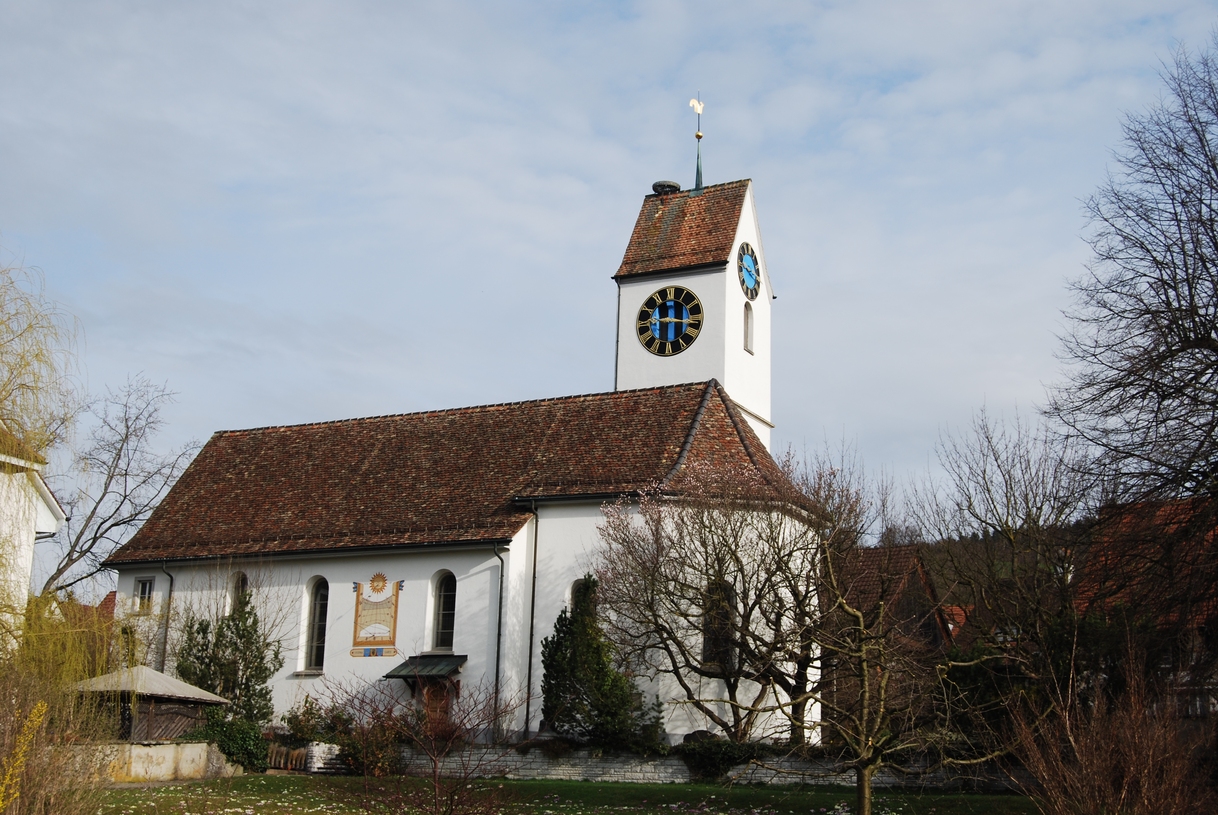 Church of Schöfflisdorf, canton of Zürich, SwitzerlandEsperanto: Preĝejo de Schöfflisdorf, Kantono Zuriko, Svislando